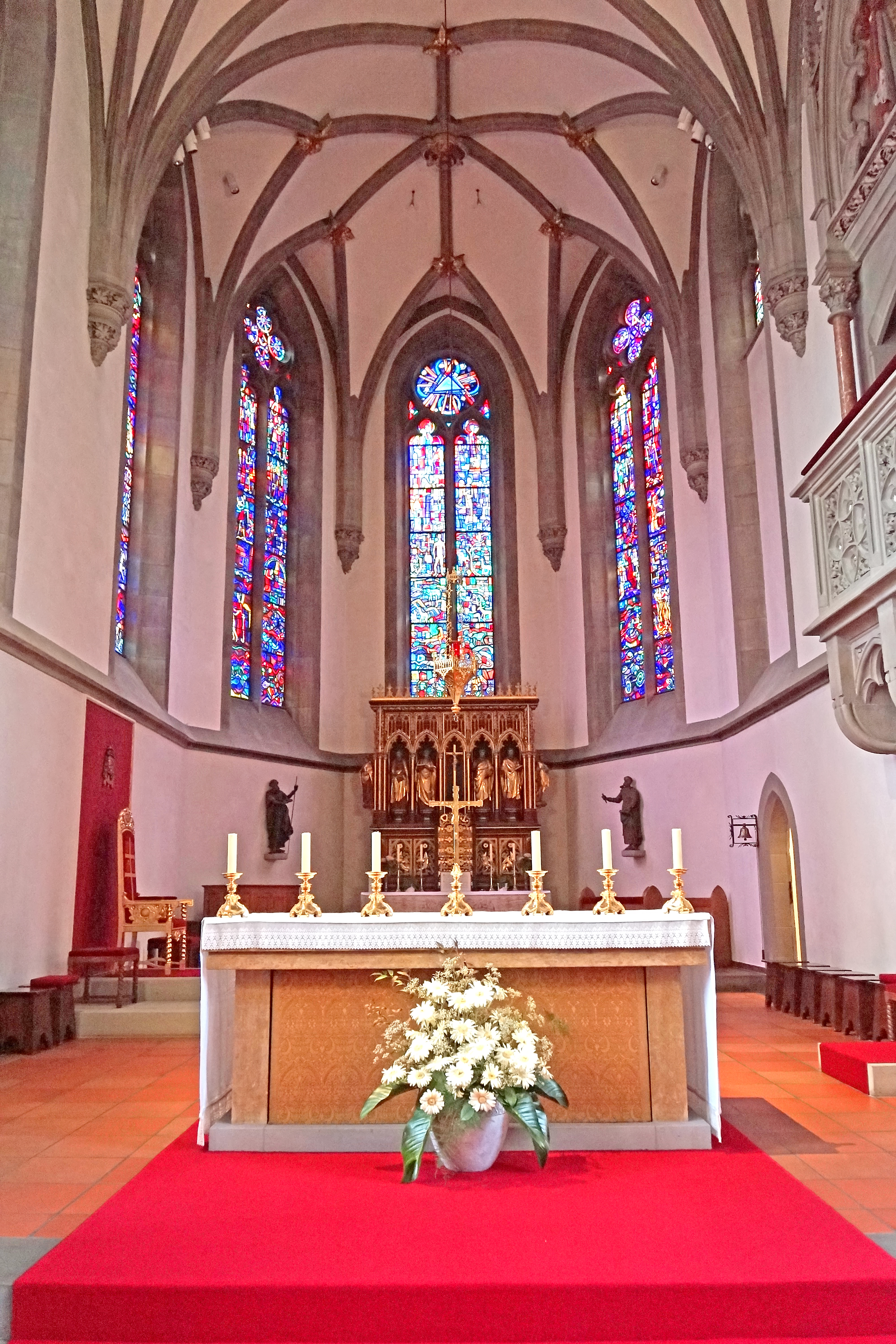 Cathedral of St. Florin, Vaduz